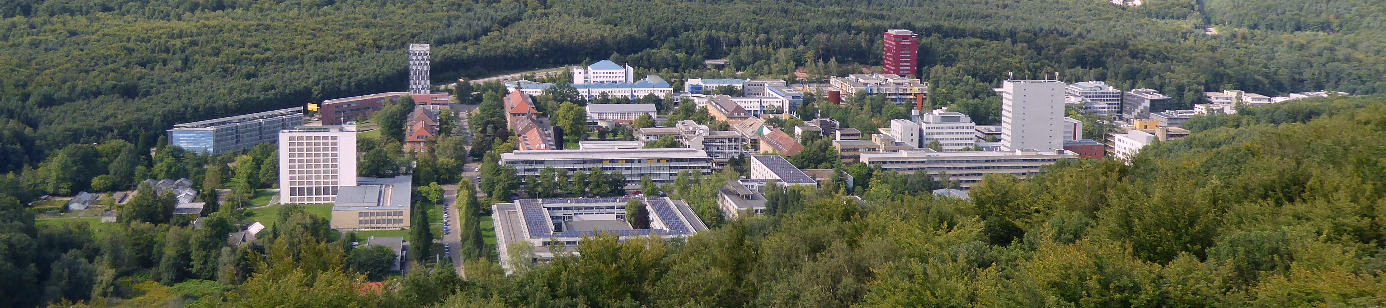 Saarland University's campus as seen from the South